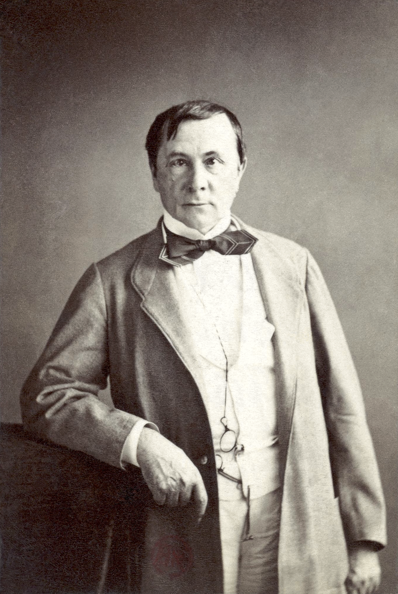 Émile de Girardin (1806–1881) French journalist, publisher and politician.